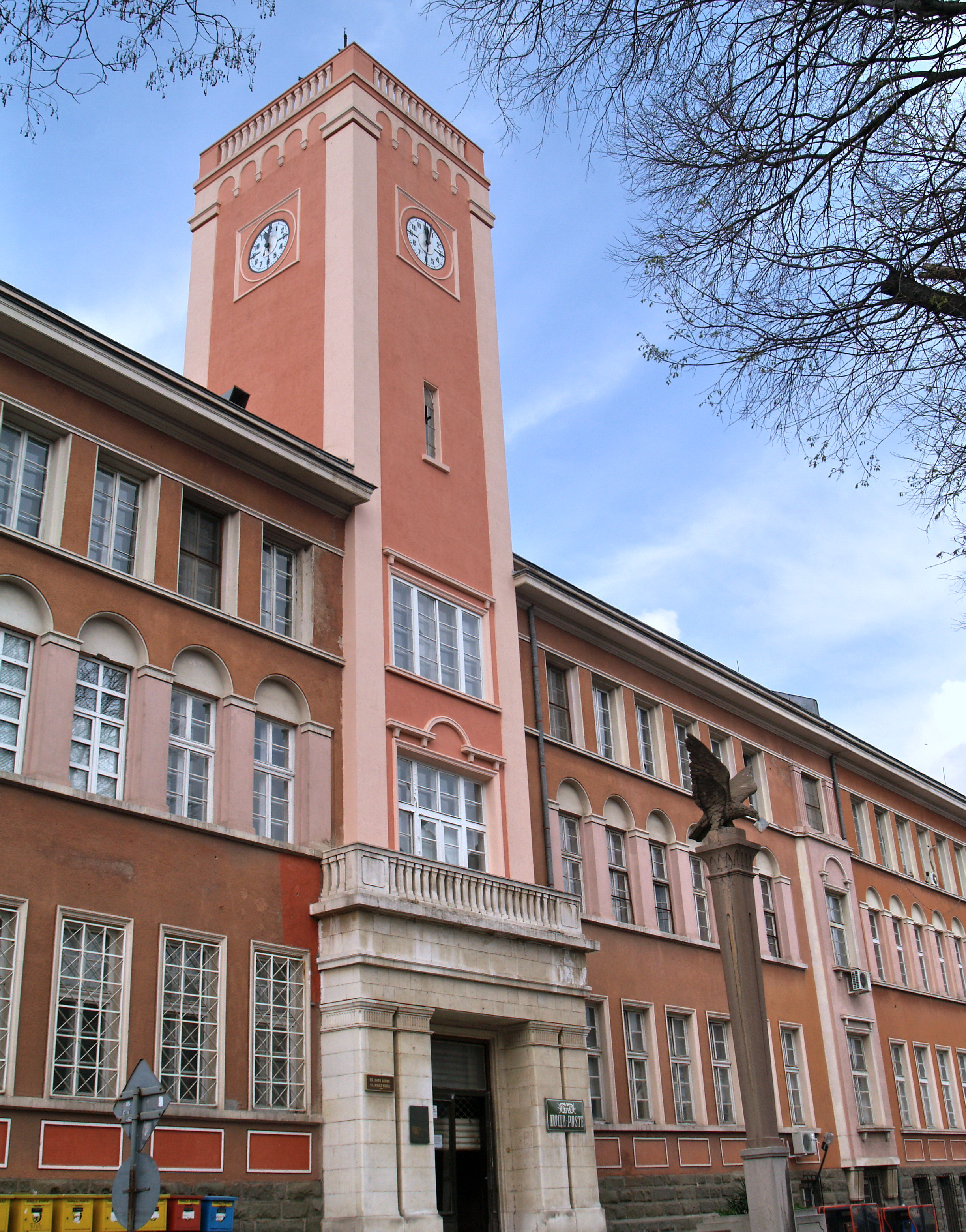 The Central Post Building, Stara Zagora, Bulgaria